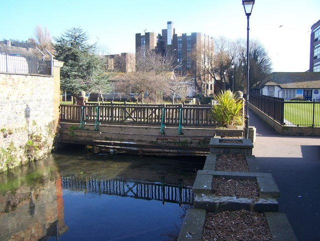 Footbridge over River Dour River goes through town centre, but is only visible in a few places. Here in between large carpark on Maison Dieu Road and Biggin Street, going past Library and Tourist Information Centre. Green lawn and white building on left are part of a Bowls Club.